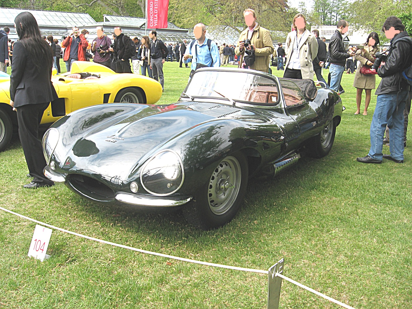 Subject:Jaguar XK-SS Date:April 27th, 2008 Event:Concorso d’Eleganza”Villa d’Este” 2008 Place/Country: Cernobbio (CO), Italy I release all rights in the public domain.